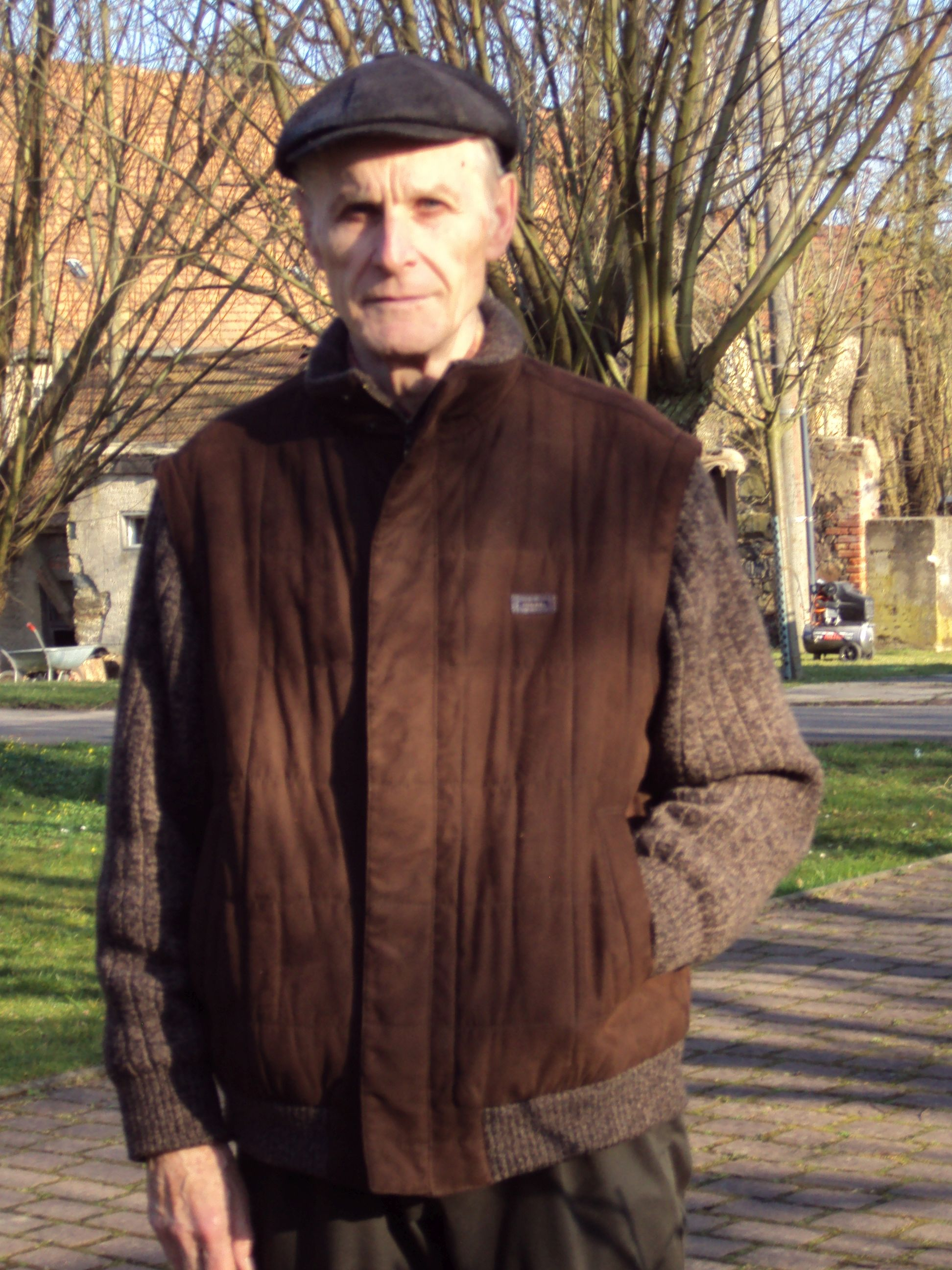 Albin Pötzsch – German chess writer, near his residence 2015 in the Wiesengrund (Germany)